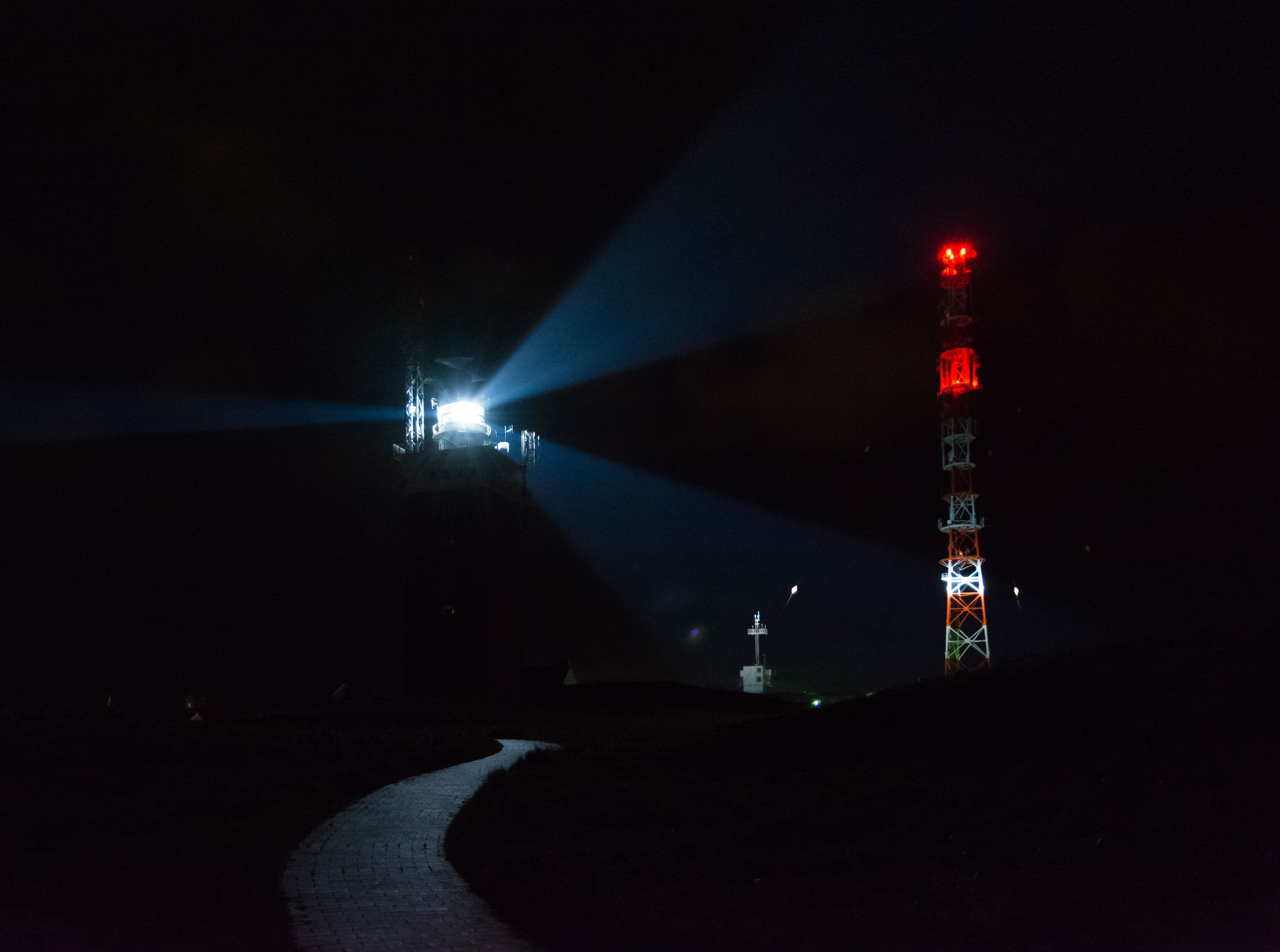 The three simultaneously generated lightbeams of the lighthouse Heligoland are separated by 120° and can be seen from the scenic walkway in the upper land of the island.